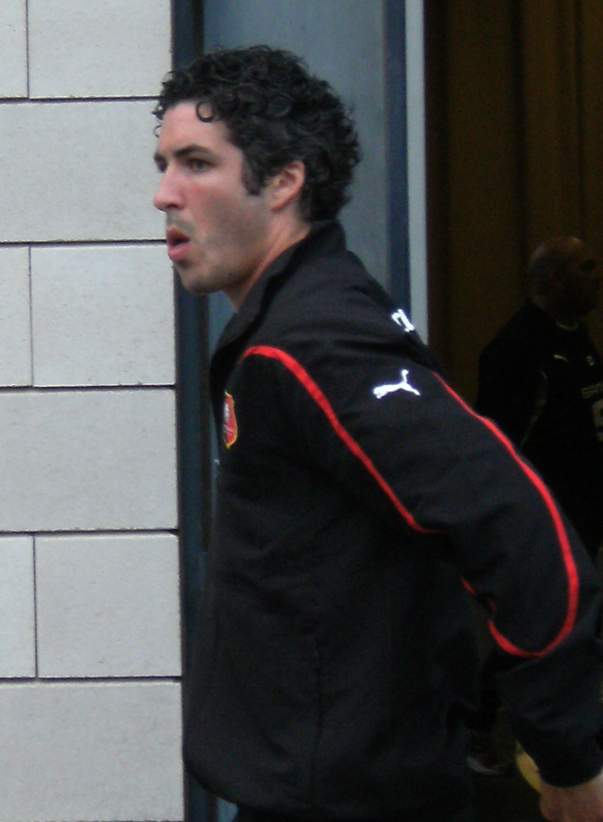 Fabien Lemoine after a friendly game between Stade rennais FC and Stade Malherbe de Caen in Ouistreham